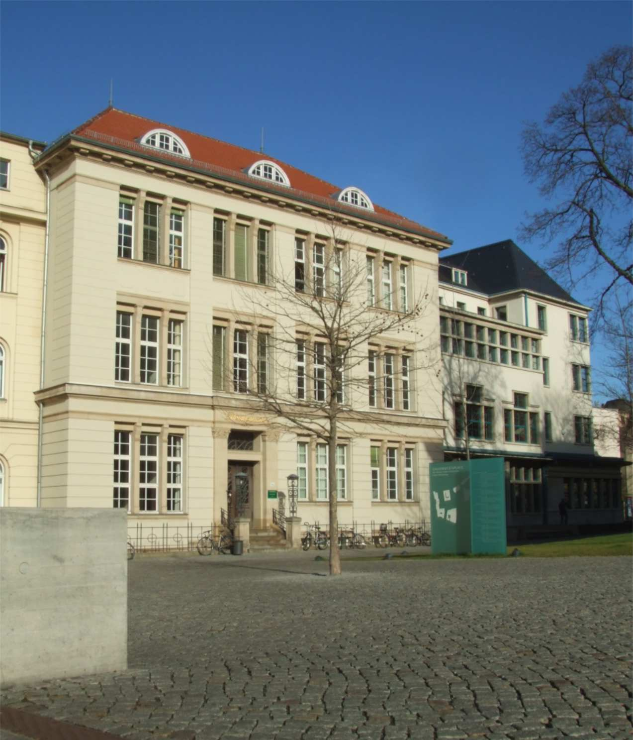 MLU's Thomasianum, built in 1910/11